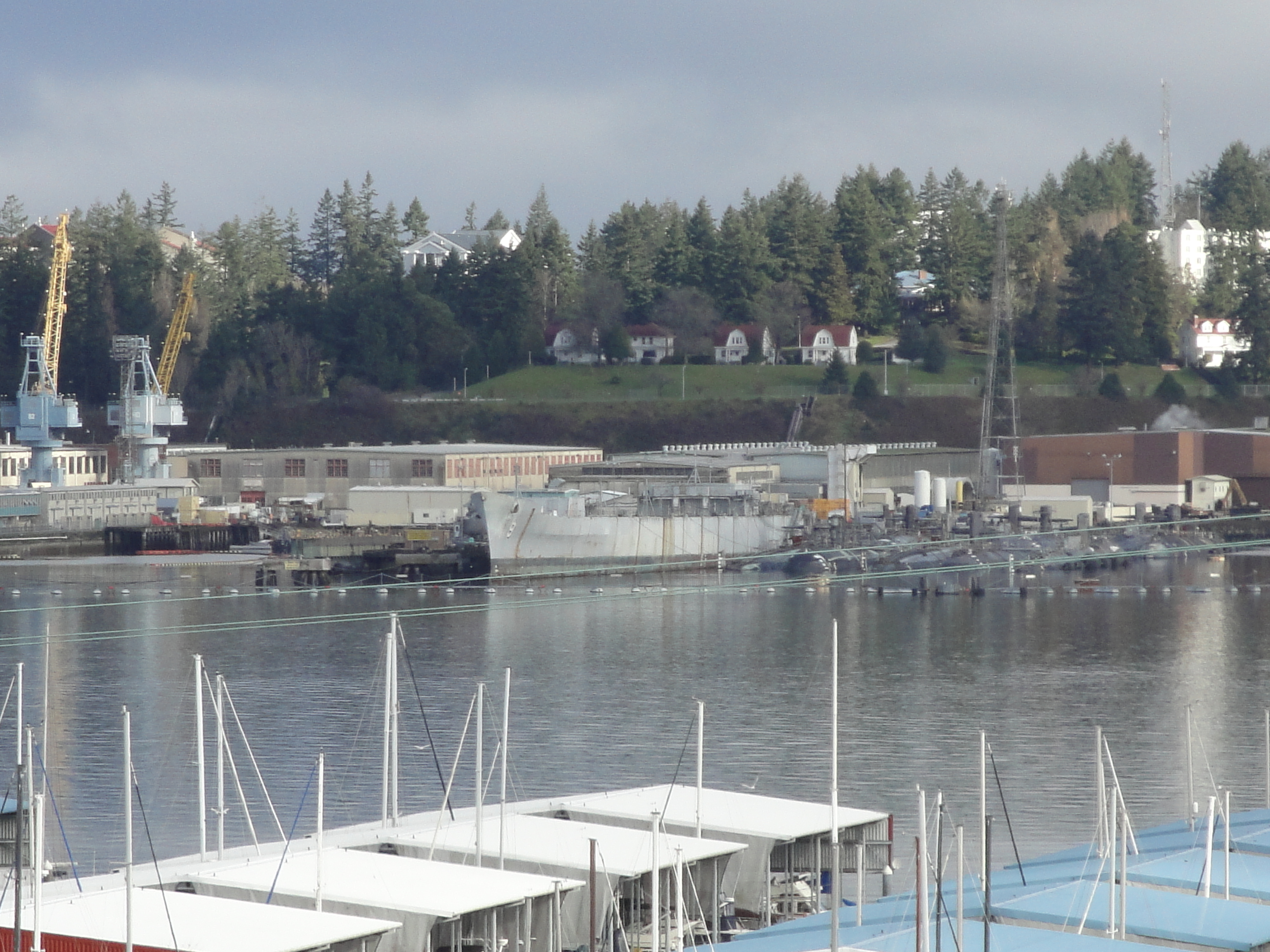 The hull of the decommissioned nuclear-powered guided cruiser USS Long Beach (CGN-9) at the Puget Sound Naval Shipyard, Washington (USA), awaiting recycling in March 2011. The picture was taken from the top of the hill in Port Orchard looking north across the water to the shipyard. Long Beach was decommissioned on 1 May 1995 and scrapped in 2012.